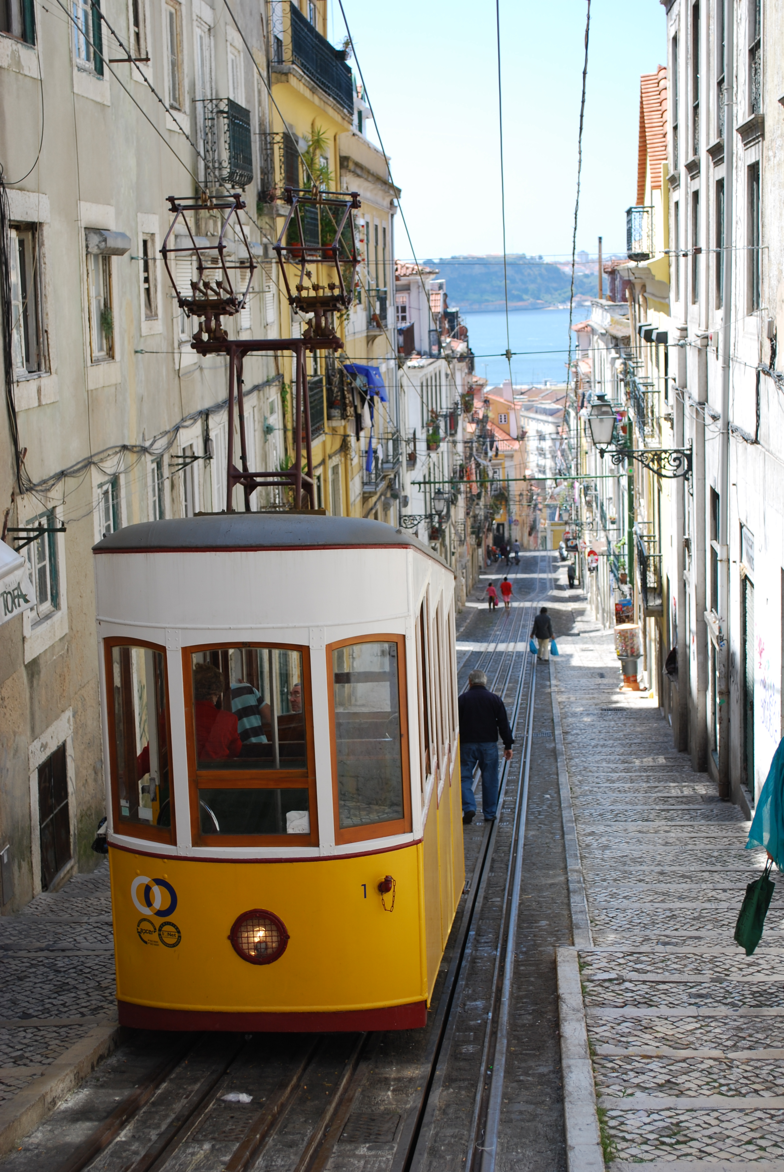 This file was uploaded for Wiki Loves Monuments in Portugal with the unique identifier 70154.